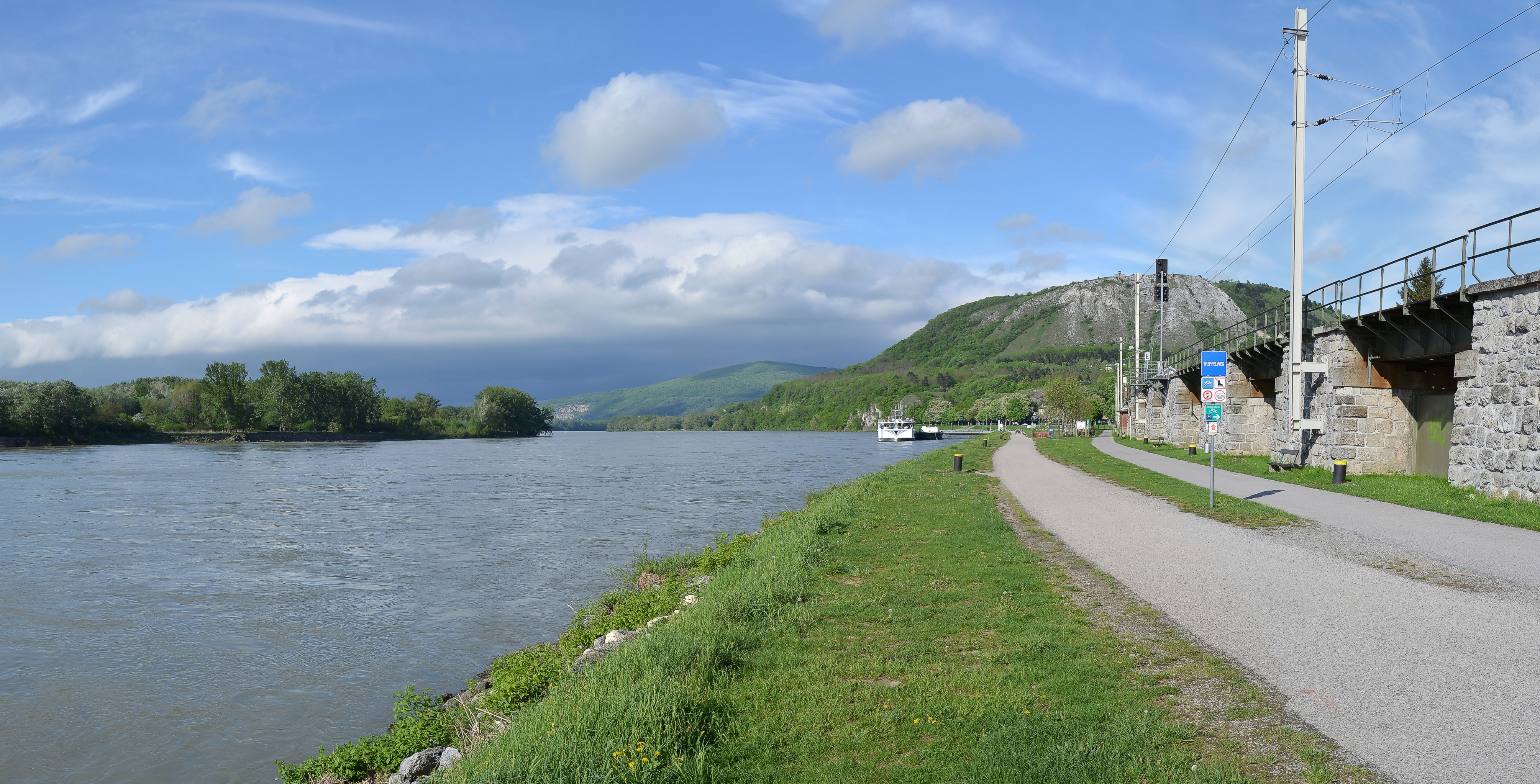 Danube and towpath in Hainburg an der Donau, Austria